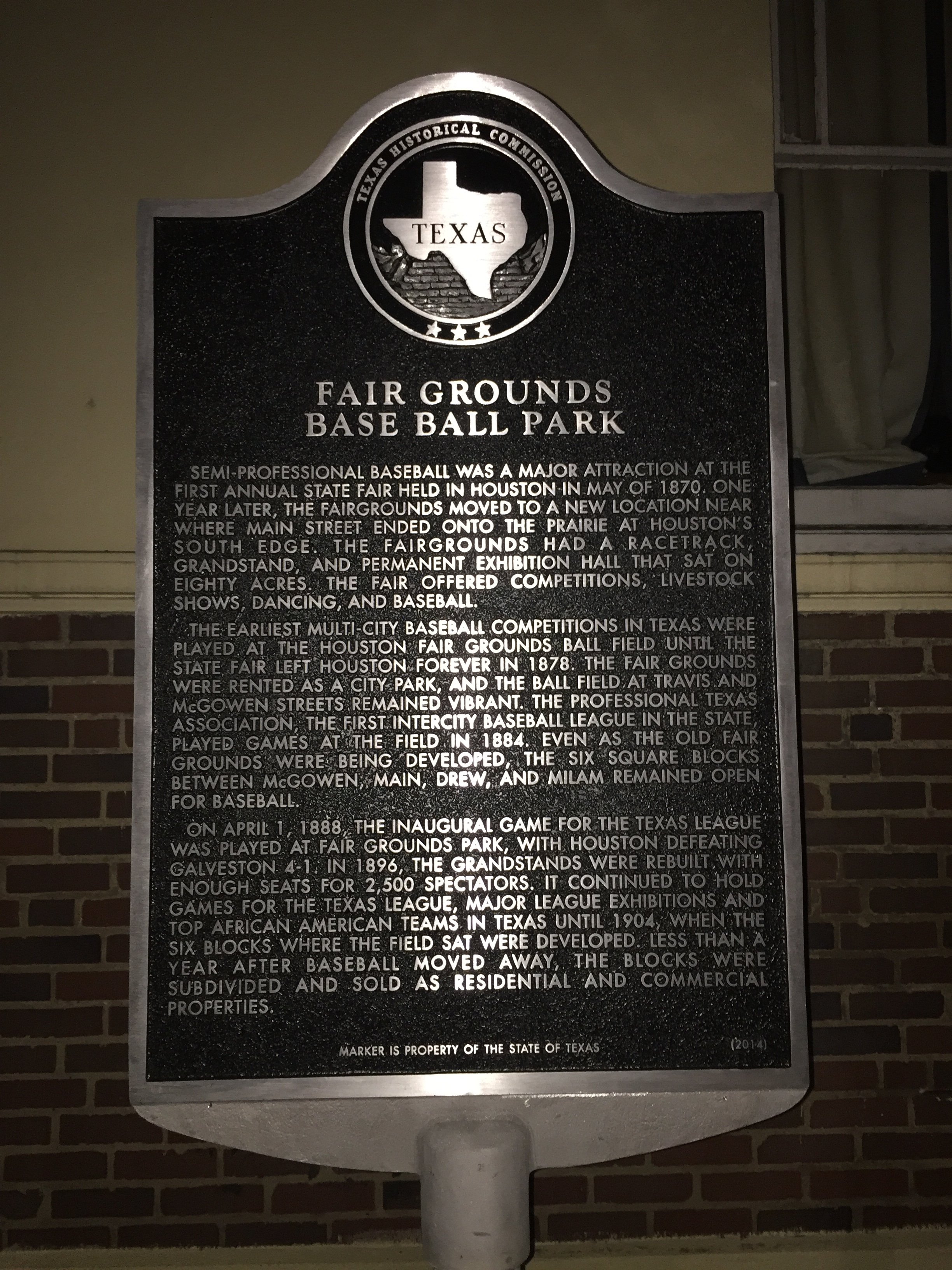 A Texas Historical Marker at the location of Herald Park commemorating the ballpark.